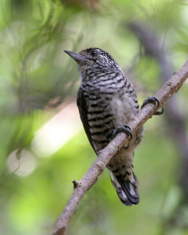 White-barred Piculet Picumnus cirratus Ibera Marshes 3rd. April 2006